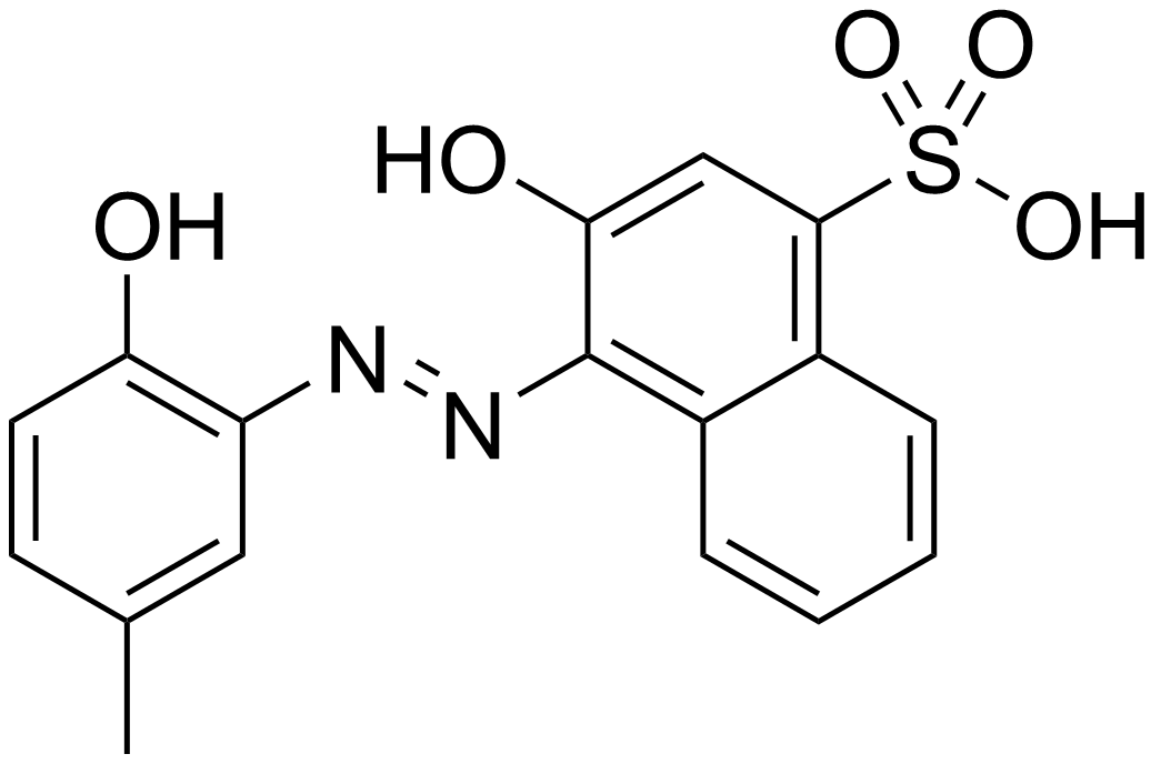 chemical structure of calmagite